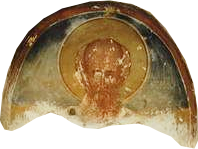 St. Athanasius Velušina Patron